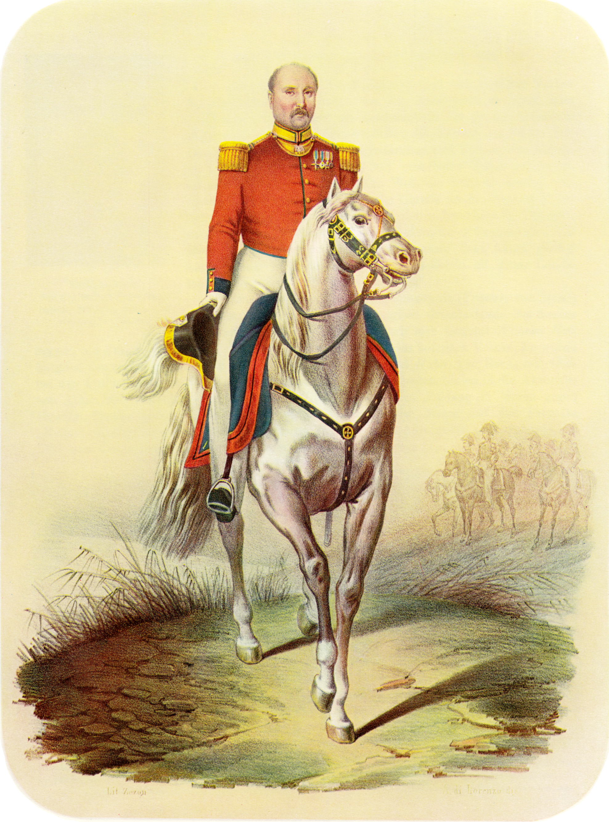 Commanding Colonel of the 2nd Swiss Regiment in the service of the Kingdom of Naples, app. 1850. Coloured lithography. Swiss National Museum, Zürich.